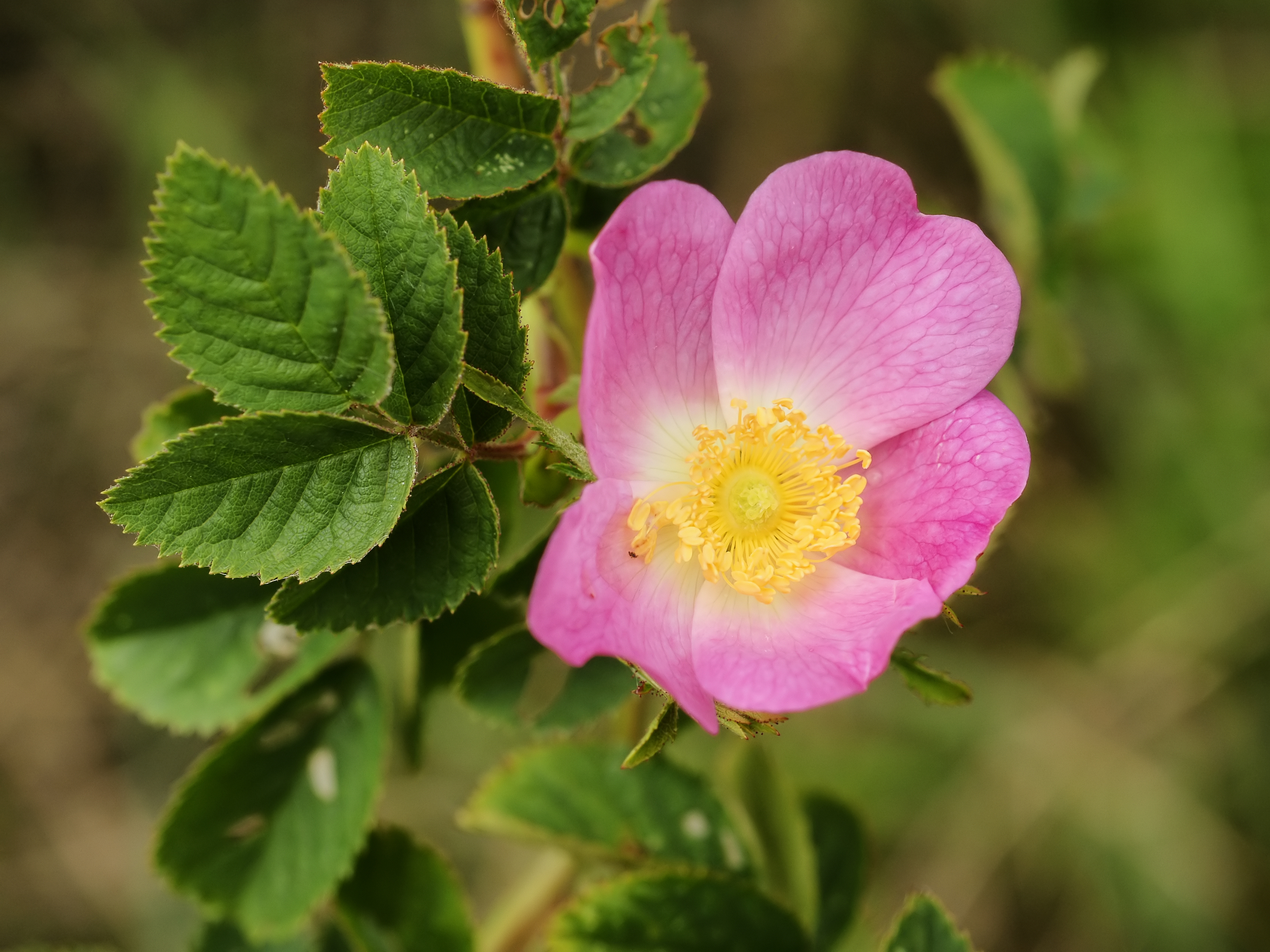 Harsh Downy-rose close to Ter Yde, Oostduinkerke, Belgium